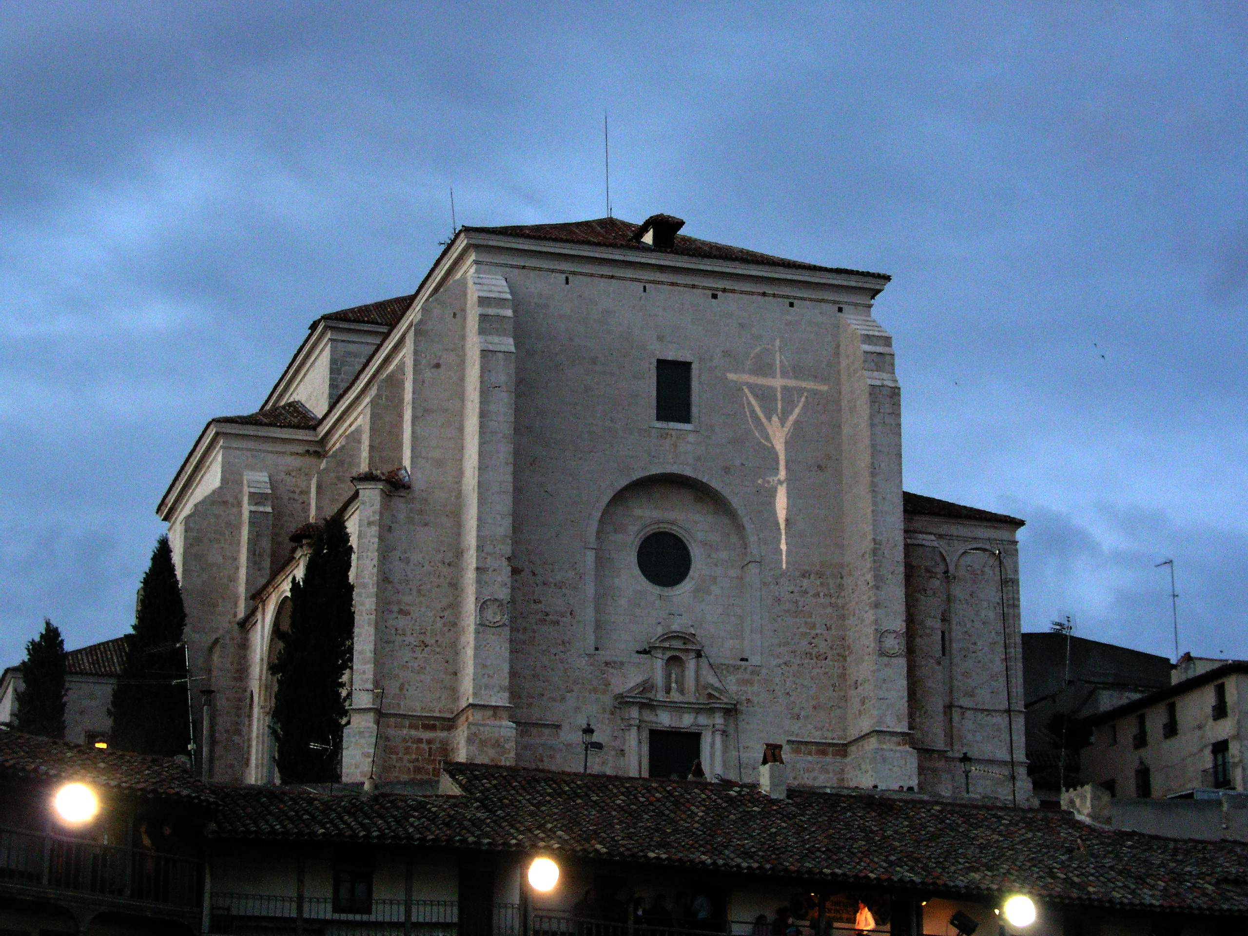 Chinchón, Iglesia Ntra Sra de la Asuncion. Nocturn image, during "Santa semana", note light image on church wall